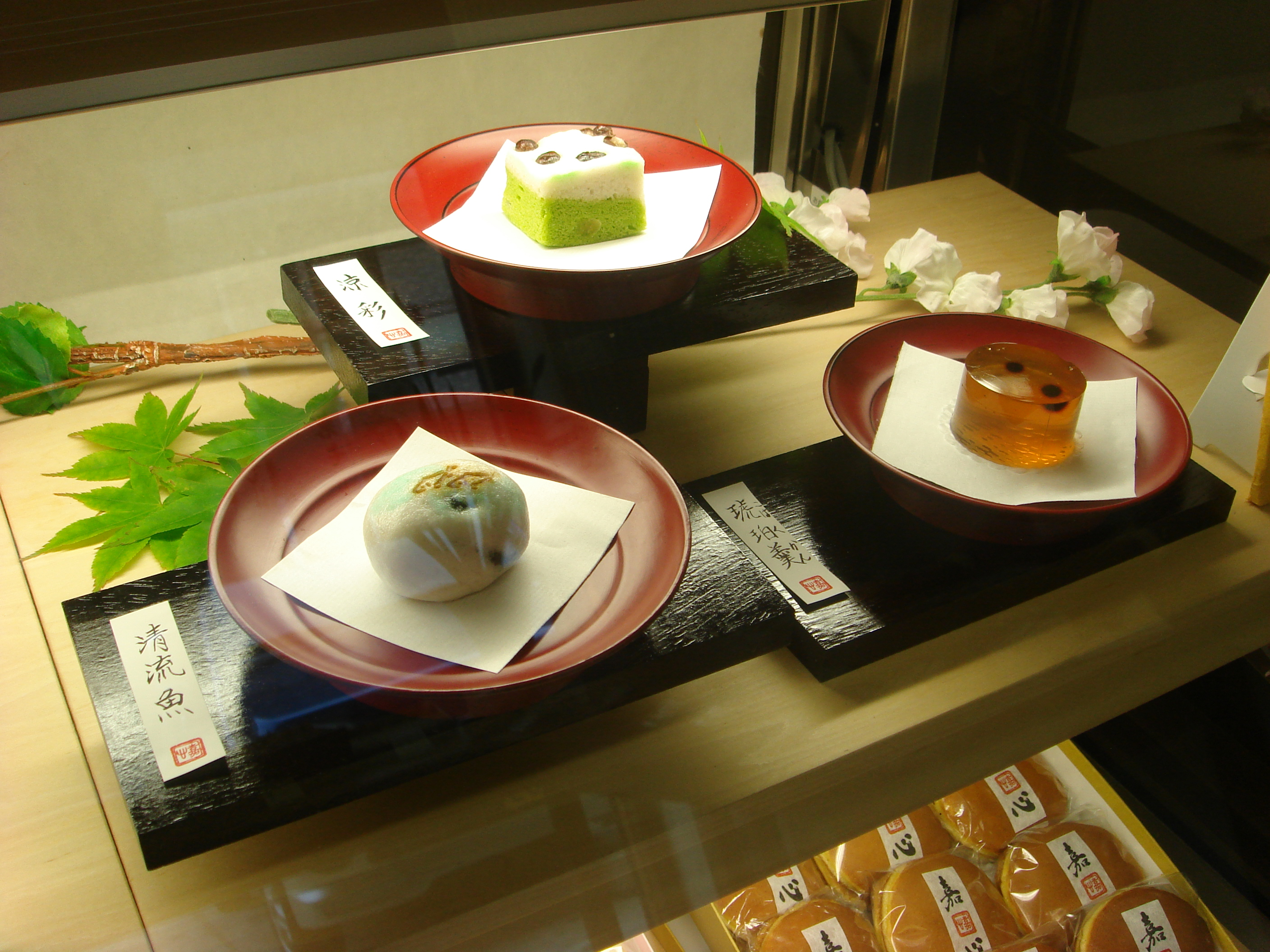 Okashi through a glass case in a shop in Sapporo, Japan.